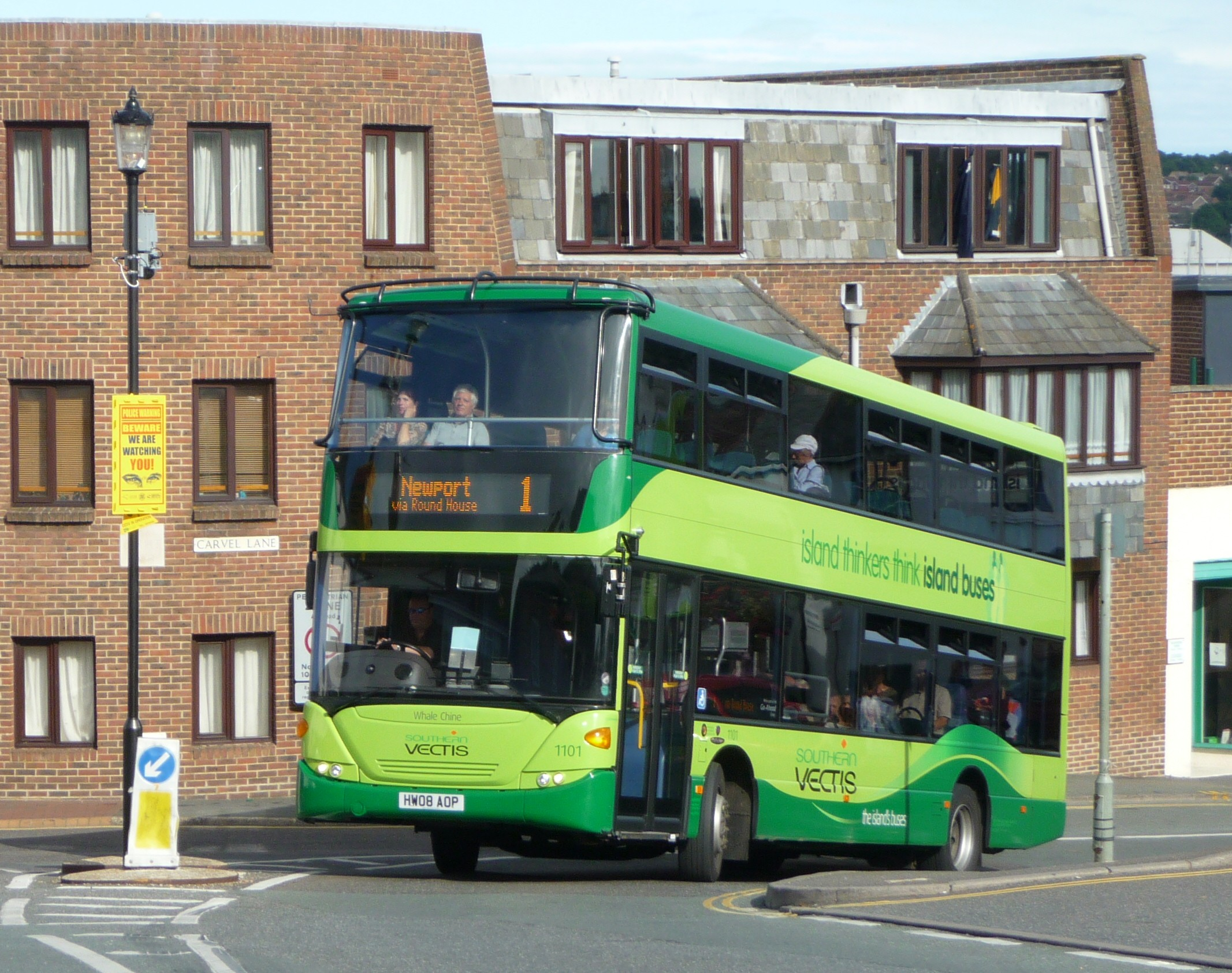 Southern Vectis 1101 Whale Chine (HW08 AOP), a Scania CN270UD 4x2 EB OmniCity (built 2008), turning from Carvel Lane, Cowes, Isle of Wight, left, up into Terminus Road. Because it was Cowes Week at the time, route 1 was not serving the Red Jet terminal, meaning double-deckers could be used.